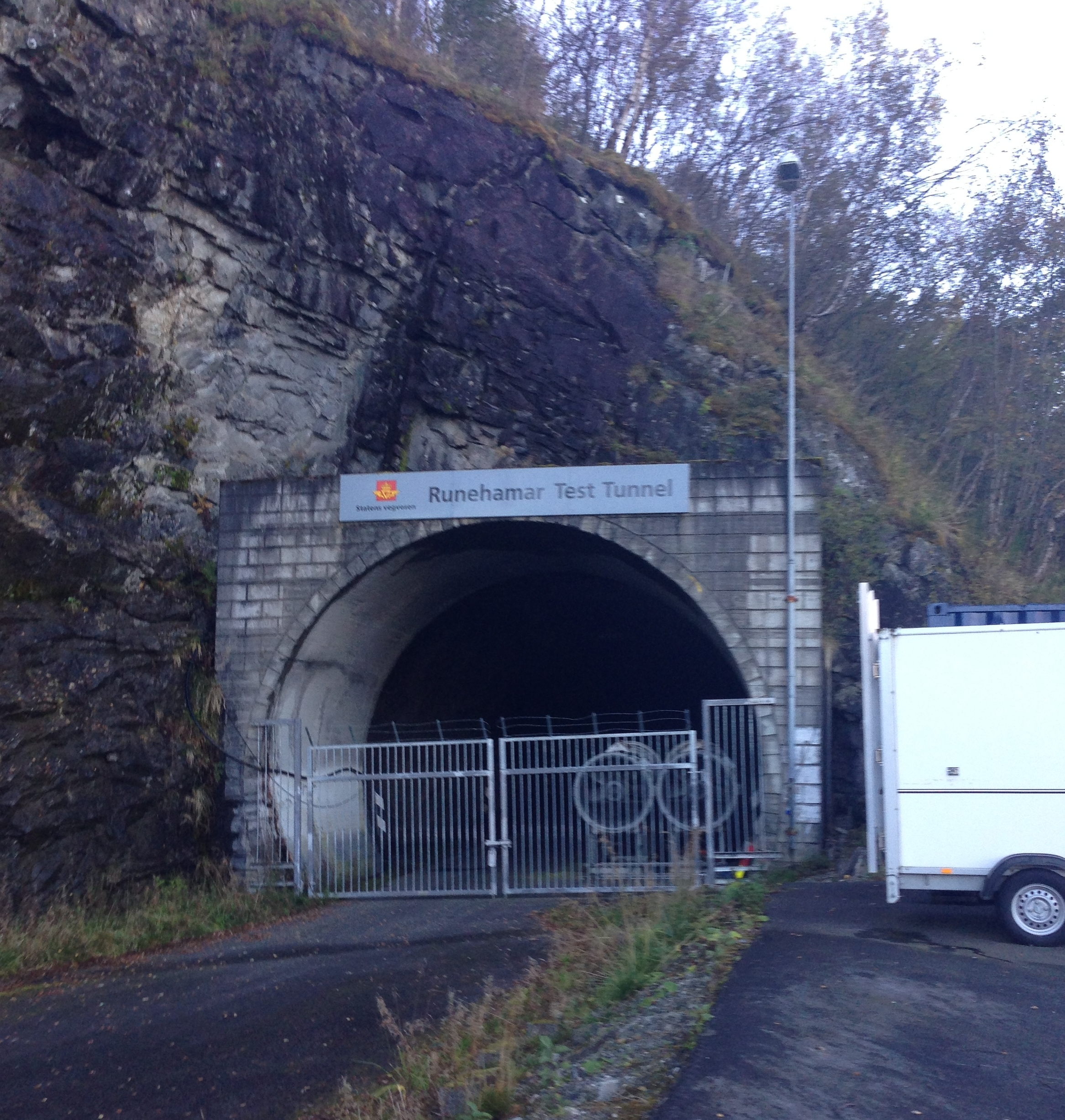 Runehamar tunnel eastern entrance